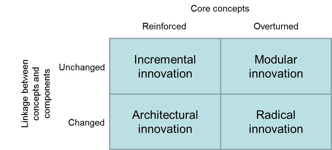 Innovation typology